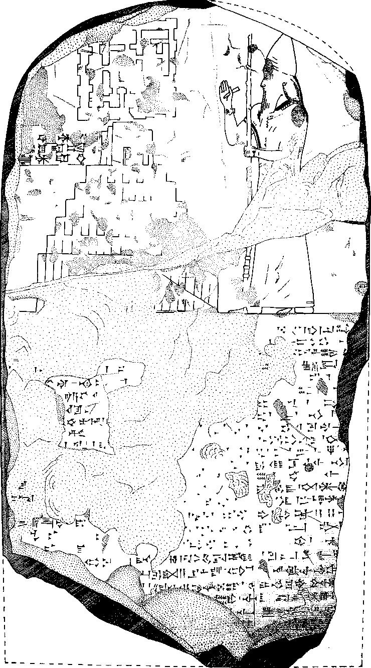 Etemenanki Babylon (2)